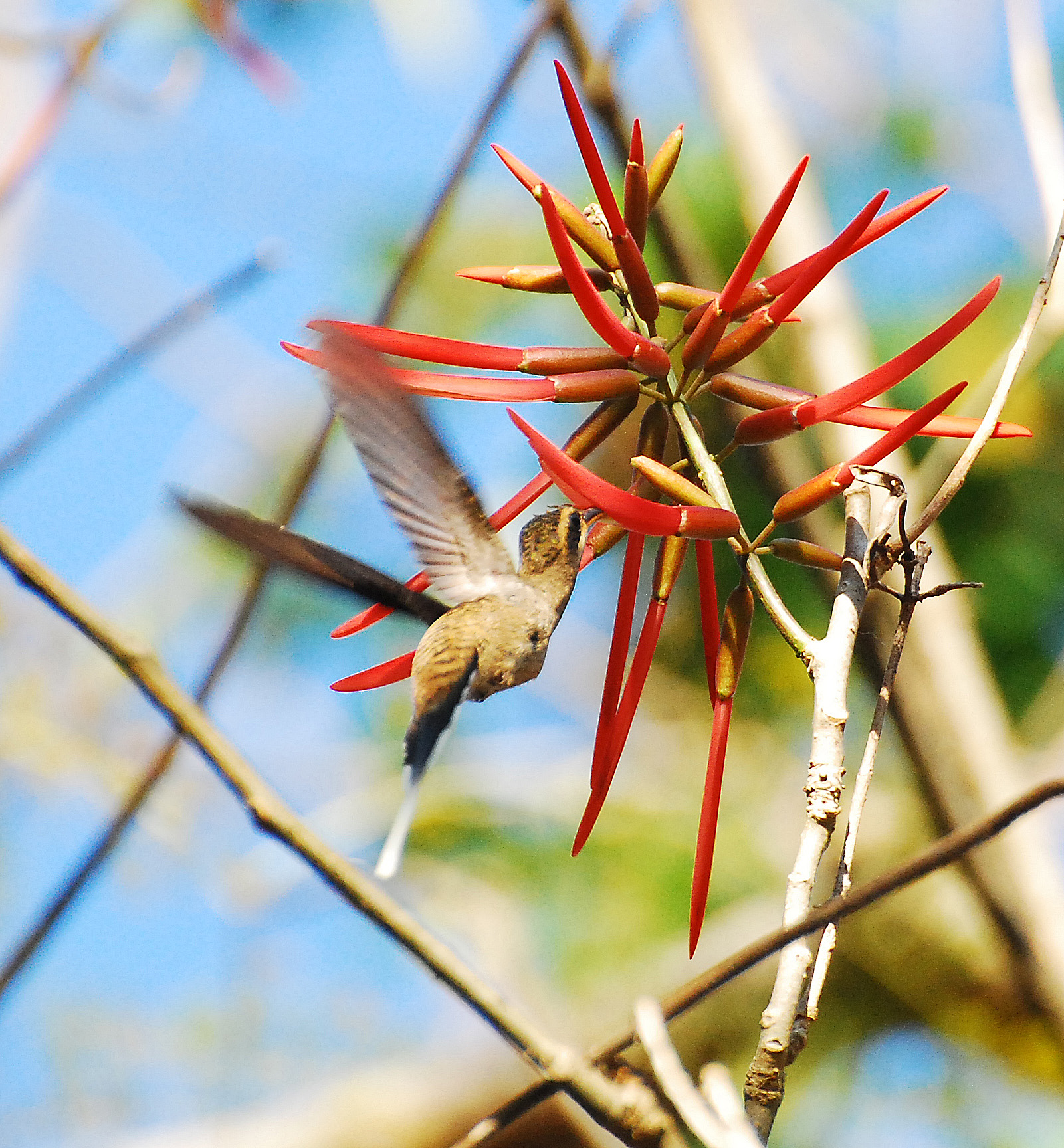 Mexican Hermit at Rancho Dioon, Oaxaca, Mexico, 080331. Phaethornis mexicanus. Phaethornis (longirostris) mexicanus